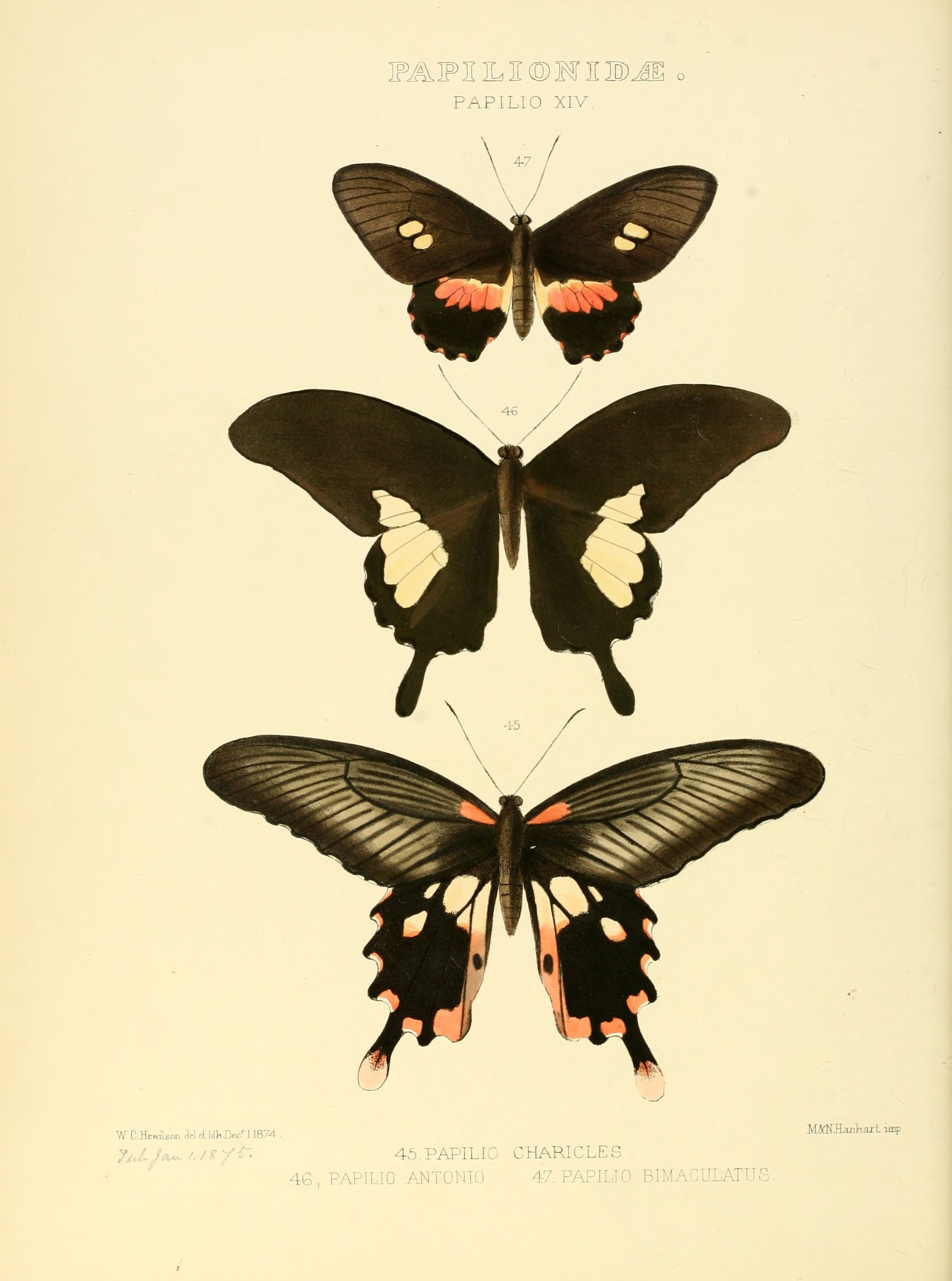 Plate: Papilio XIV Papilio charicles. Fig. 45. Accepted as Papilio mayo Atkinson, 1874. Papilio antonio. Fig. 46. Accepted as Papilio antonio Hewitson, 1875. Papilio bimaculatus. Fig. 47. (Corrected by note in Vol. V to female of P. Timias.) Accepted as Parides eurimedes (Stoll, 1782).